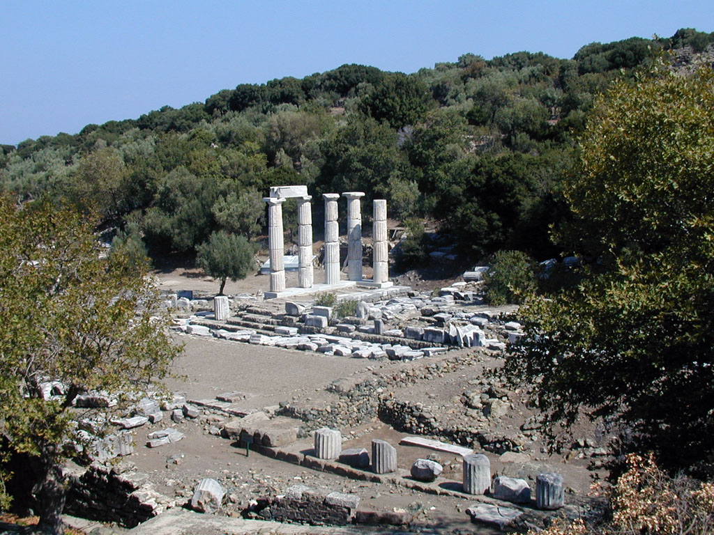 Remains of the Great Gods' Hieron in Samothraki. Photograph taken by Marsyas 16:49, 9 Apr 2005 (UTC).